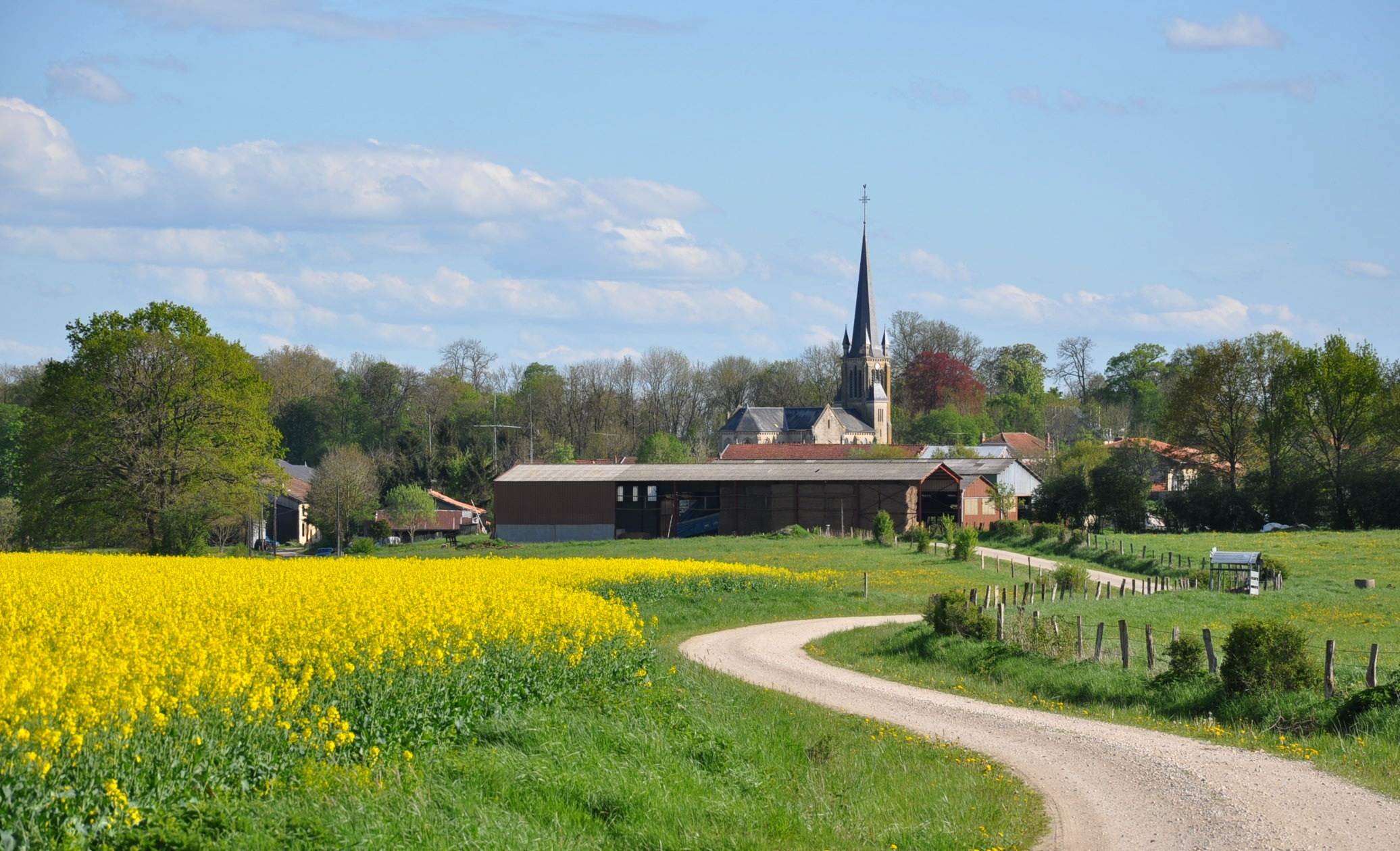 The village of Waly, seen from the north (canton Seuil-d'Argonne, arrondissement Bar-le-Duc, Meuse departement, Lorraine region, France)